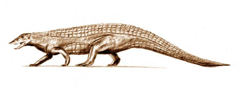 Stagonolepis, pencil drawing, after skeletal description by Walker, 1961 Author:User:ArthurWeasley